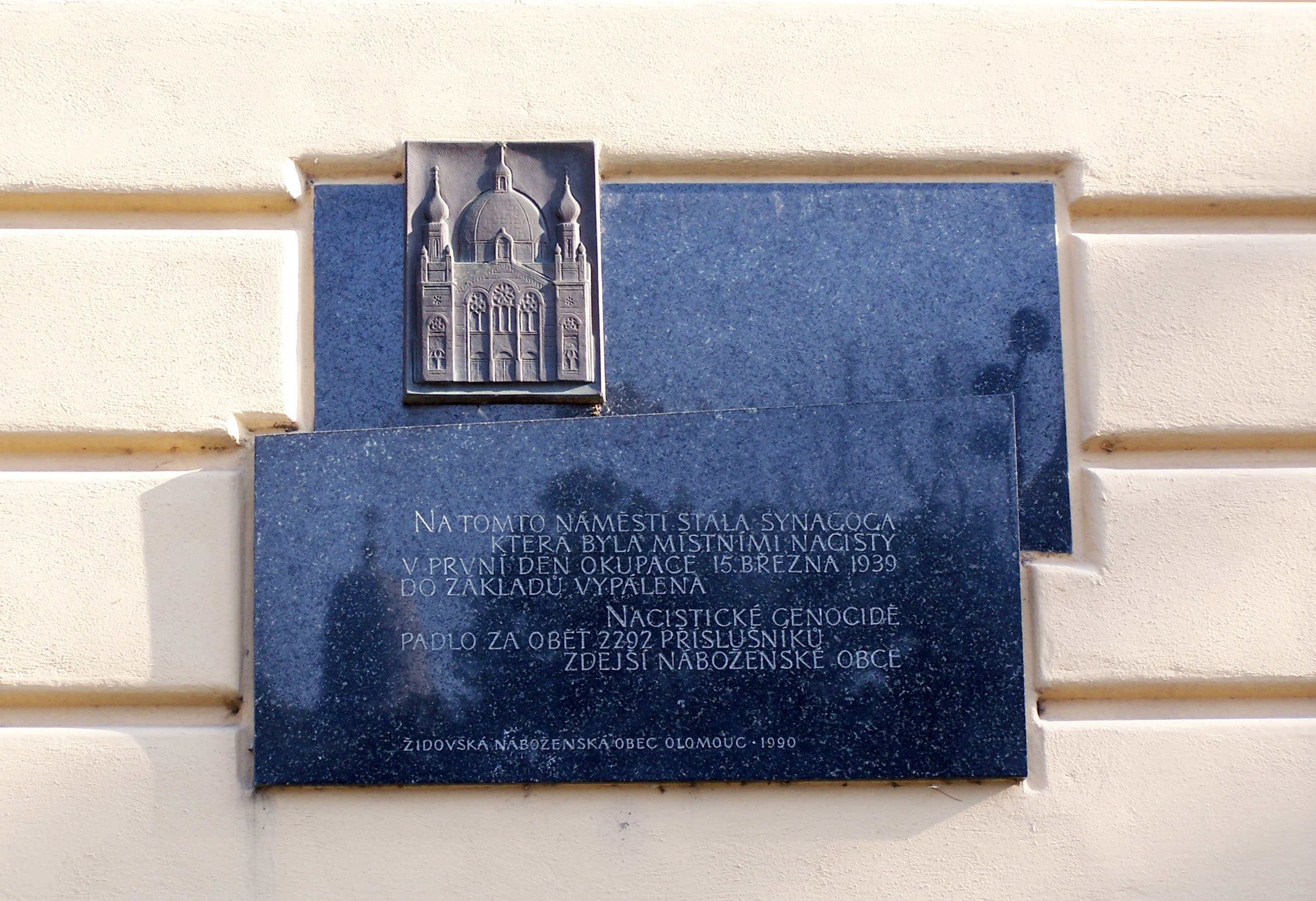 Memorial plaque at Palach Square in Olomouc, Czech Republic commemorating the synagogue burnt down by Nazis and 2,292 Jews from local Jewish community murdered by Nazis during World War II.